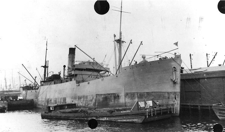 Commercial cargo ship SS Craster Hall prior to her 1918-1919 US Navy service as USS Craster Hall (ID-1486).